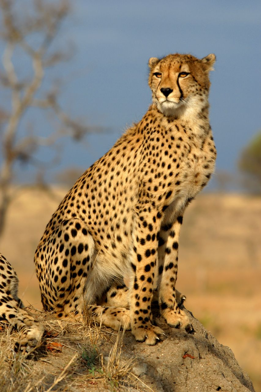 Cheetah in Sabi Sands.